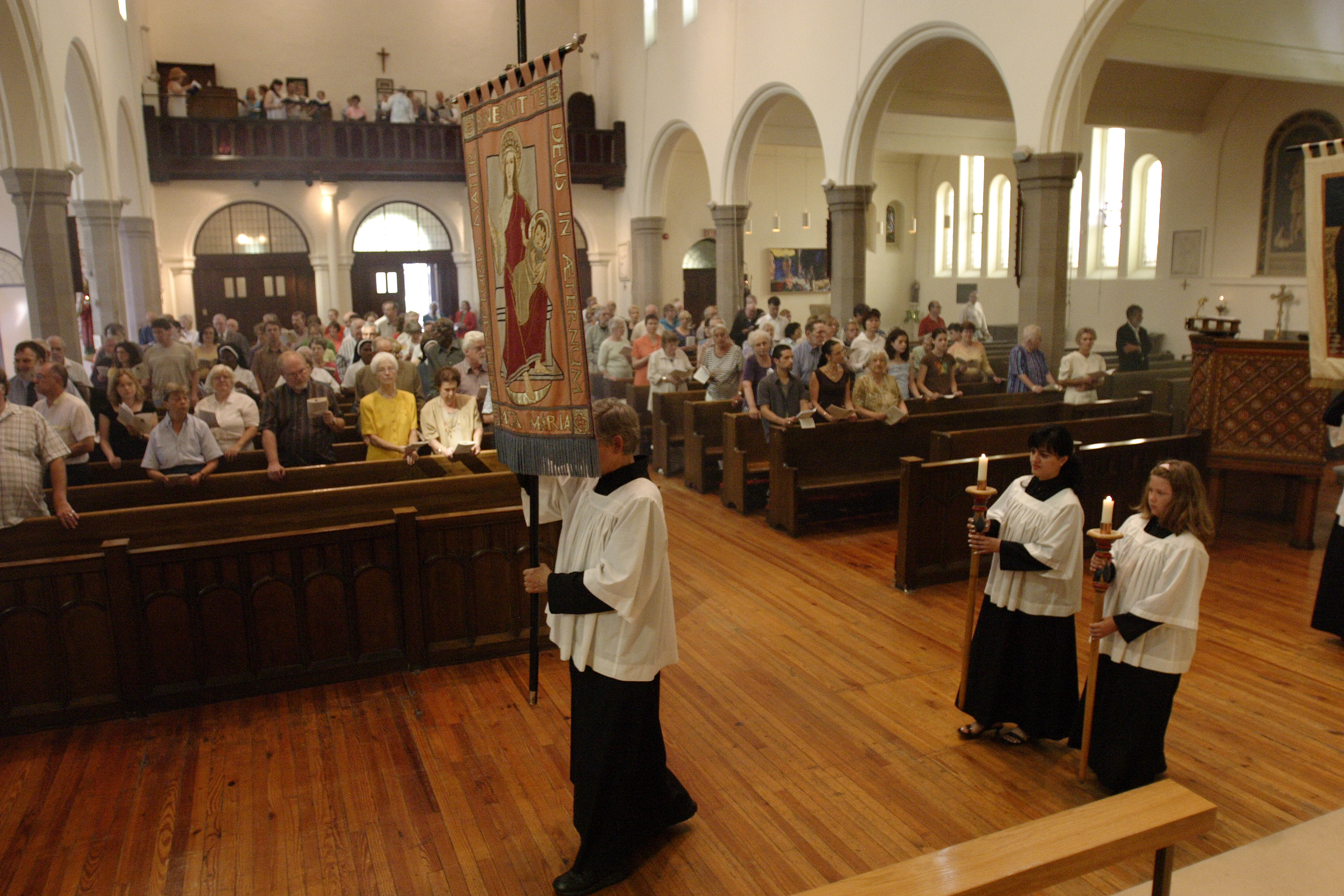 The interior of the Church of St. Mary Magdalene Toronto